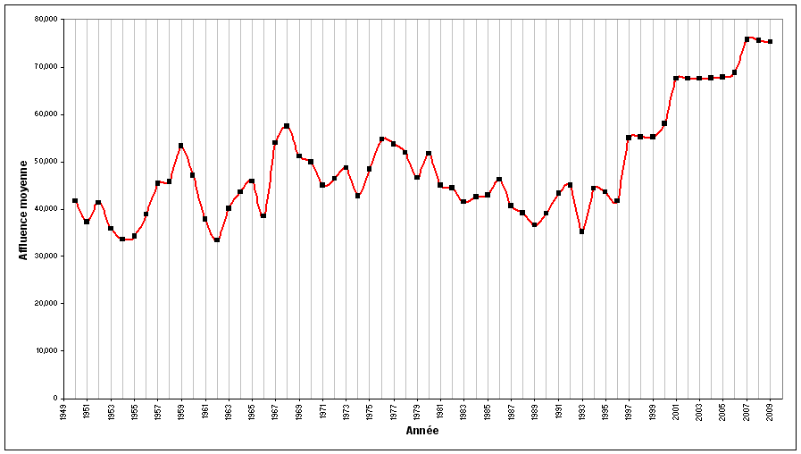 A graph of average league attendances at Old Trafford in the period from 1949 to 2009 (translated into French)